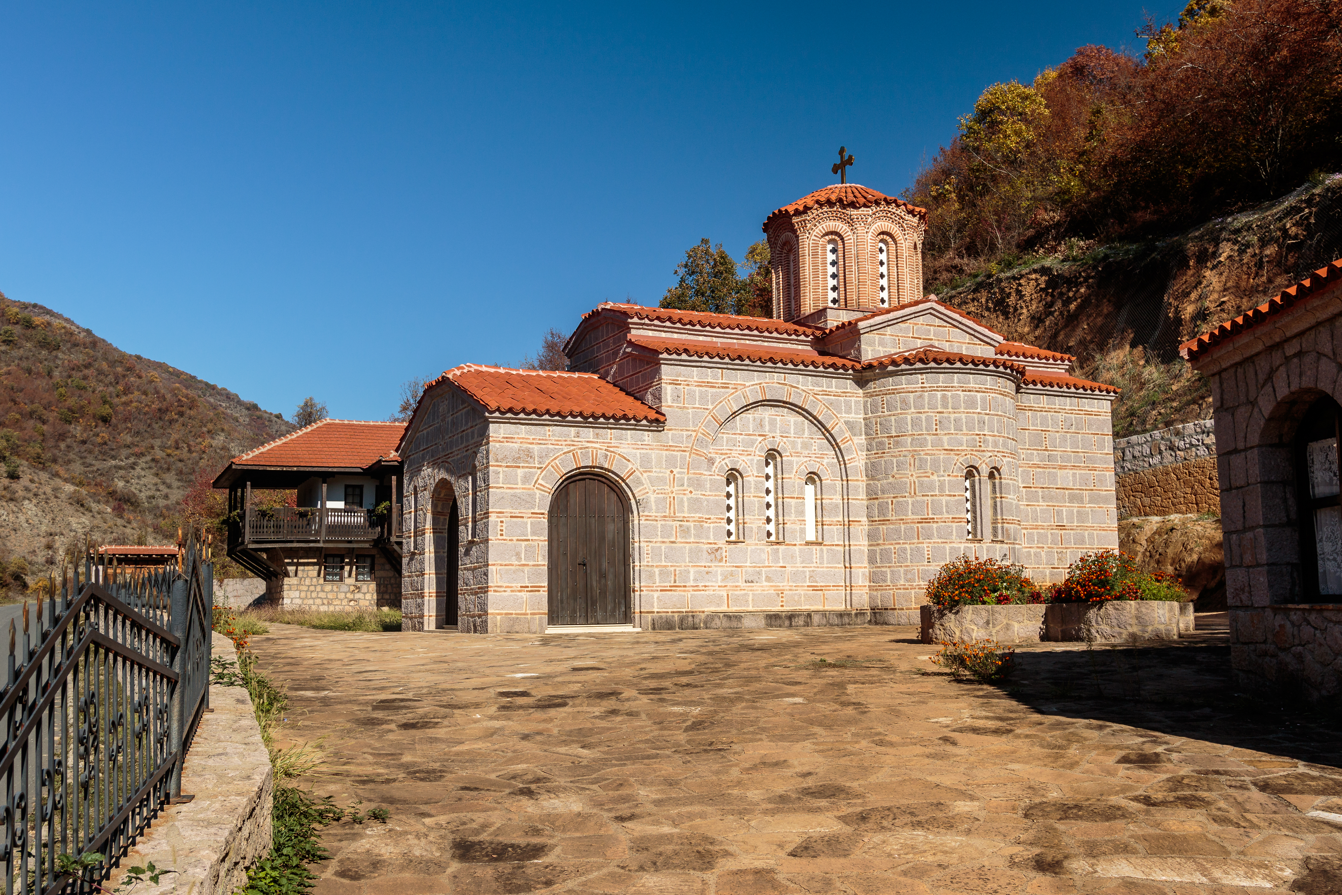 Monastery church of the Theotokos of the Zletovo Monastery, Zletovo-Probištip Region, Macedonia